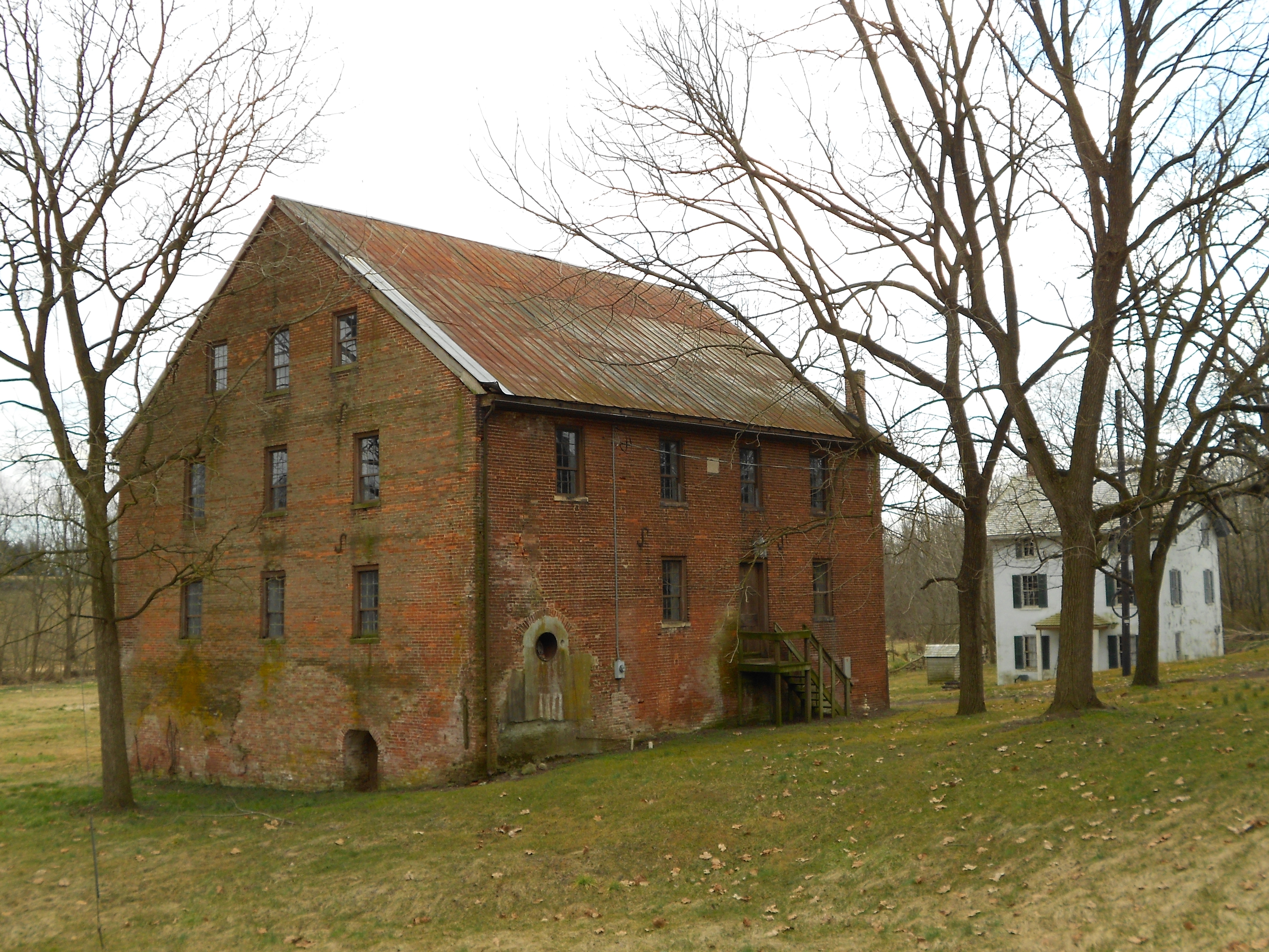 Donegal Mills Plantation on the NRHP since January 20, 1978 Southwest of Mount Joy on Trout Run Road in East Donegal Township, Lancaster County, Pennsylvania.